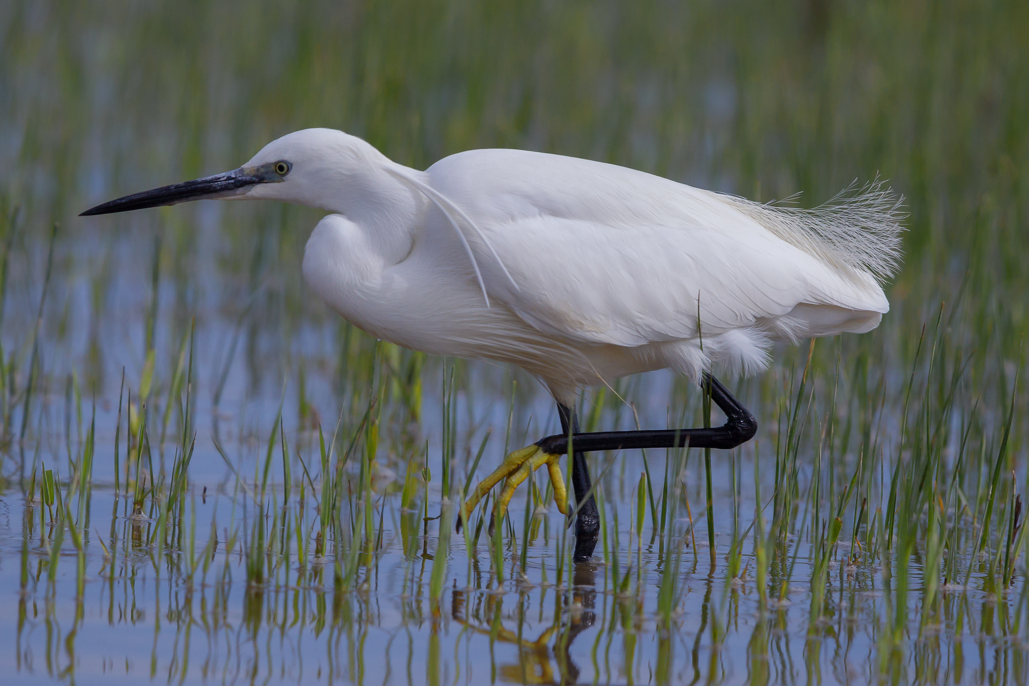 Little egret